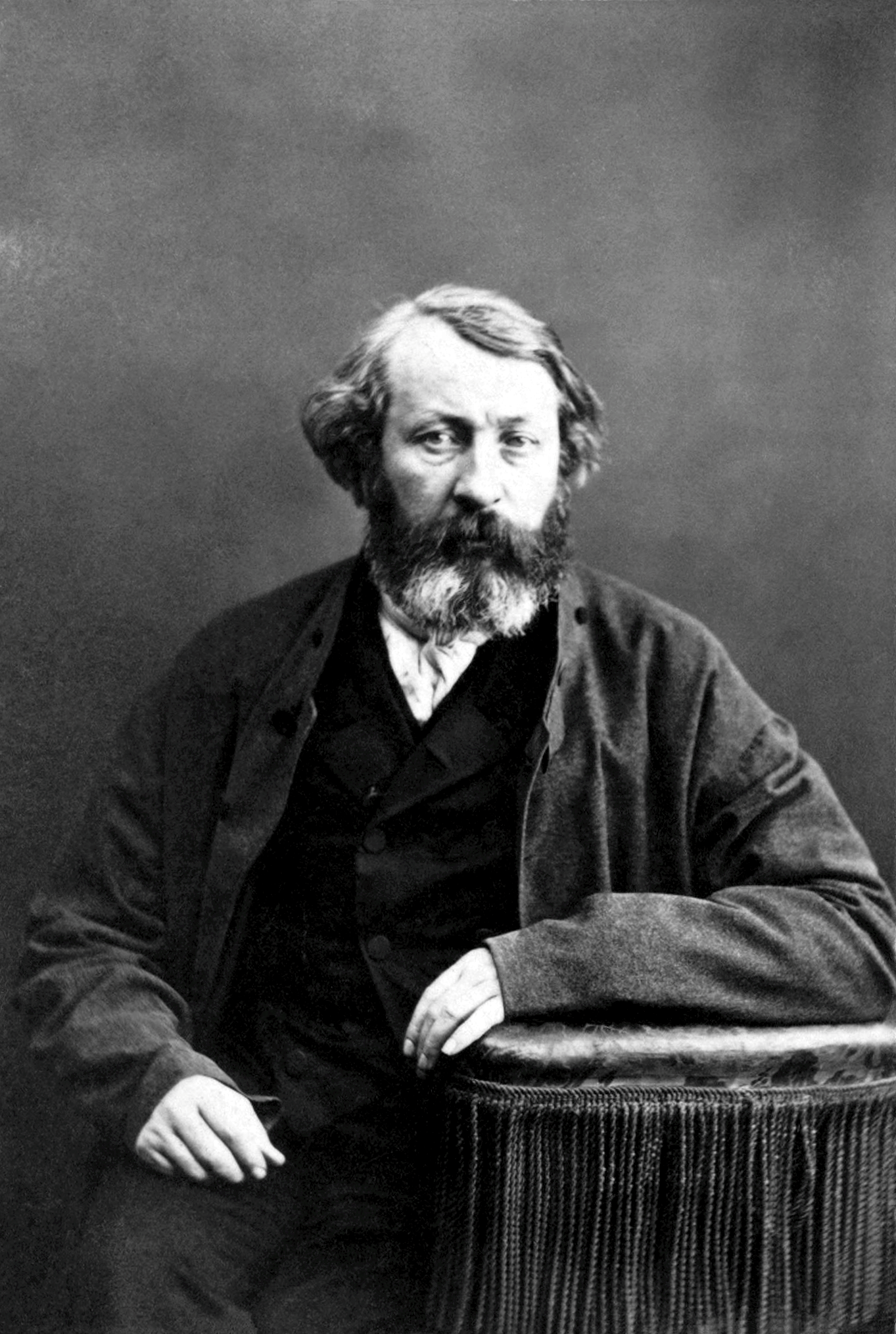 Pierre-Jules Hetzel (1814-1886) French publisher.